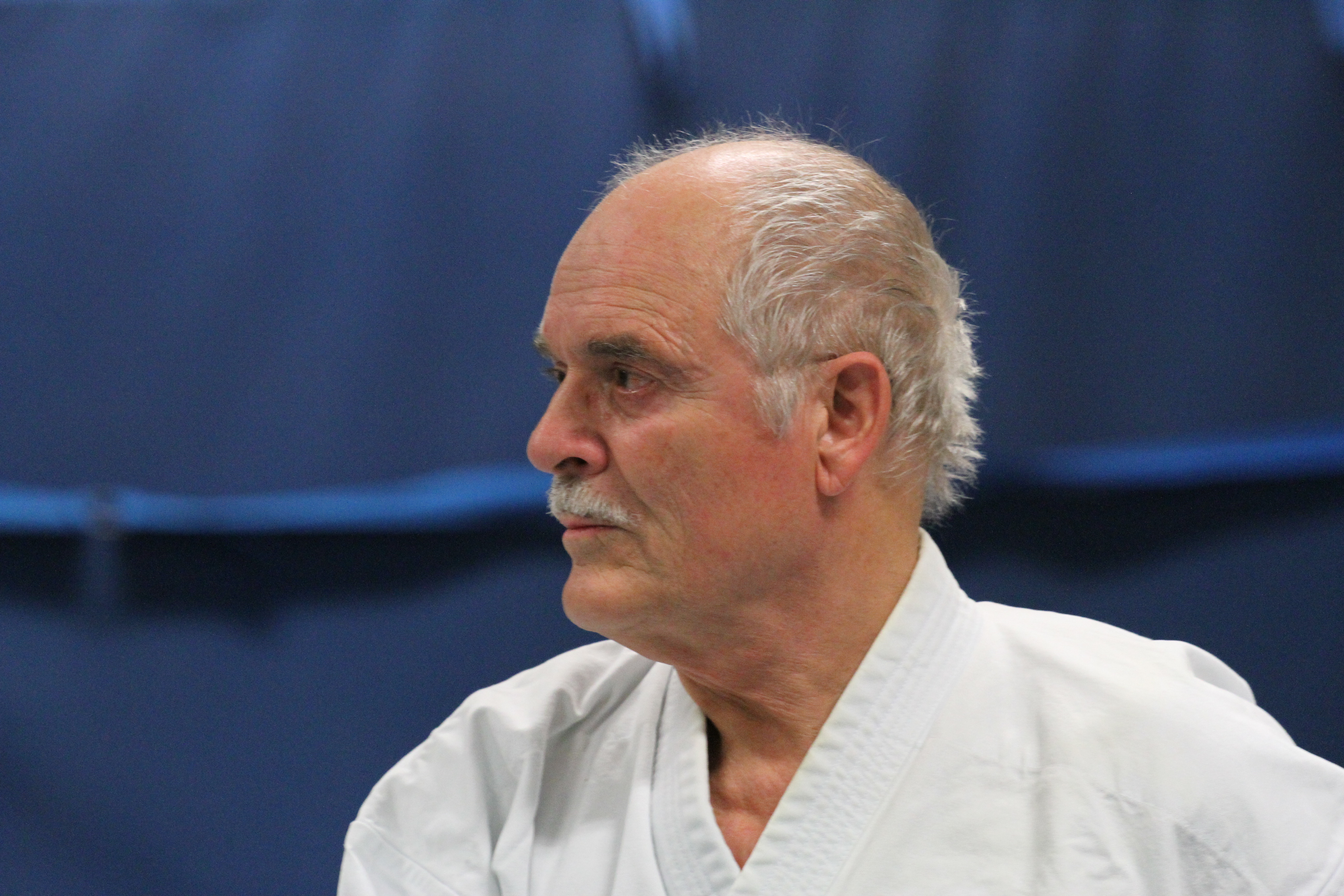 Albrecht Pflüger 8. Dan Shotokan Karate